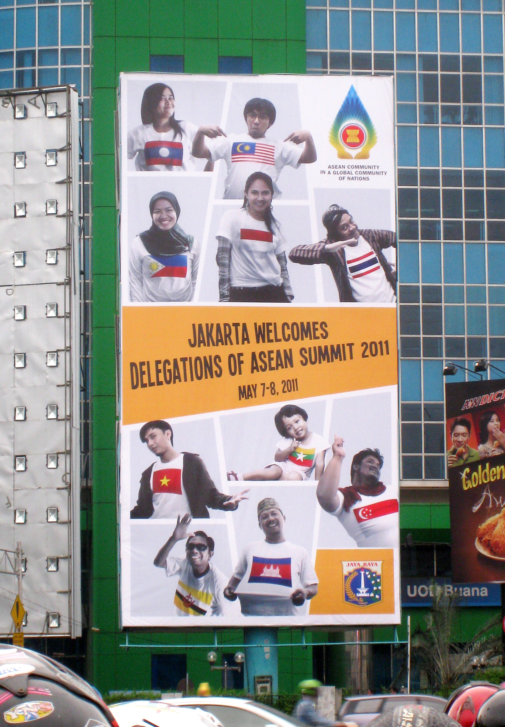 The billboard at Harmoni intersection in Central Jakarta "Jakarta Welcomes Delegations of ASEAN Summit 2011, May 7–8, 2011". Depicting Indonesians of various ages, genders, religions and ethnicities wearing T-Shirts bearing national flags of 10 ASEAN members. It should be noted that the female bearing the predominantly-Christian Philippines flag is wearing a traditional Muslim hijab to symbolize inclusiveness of ASEAN nations.